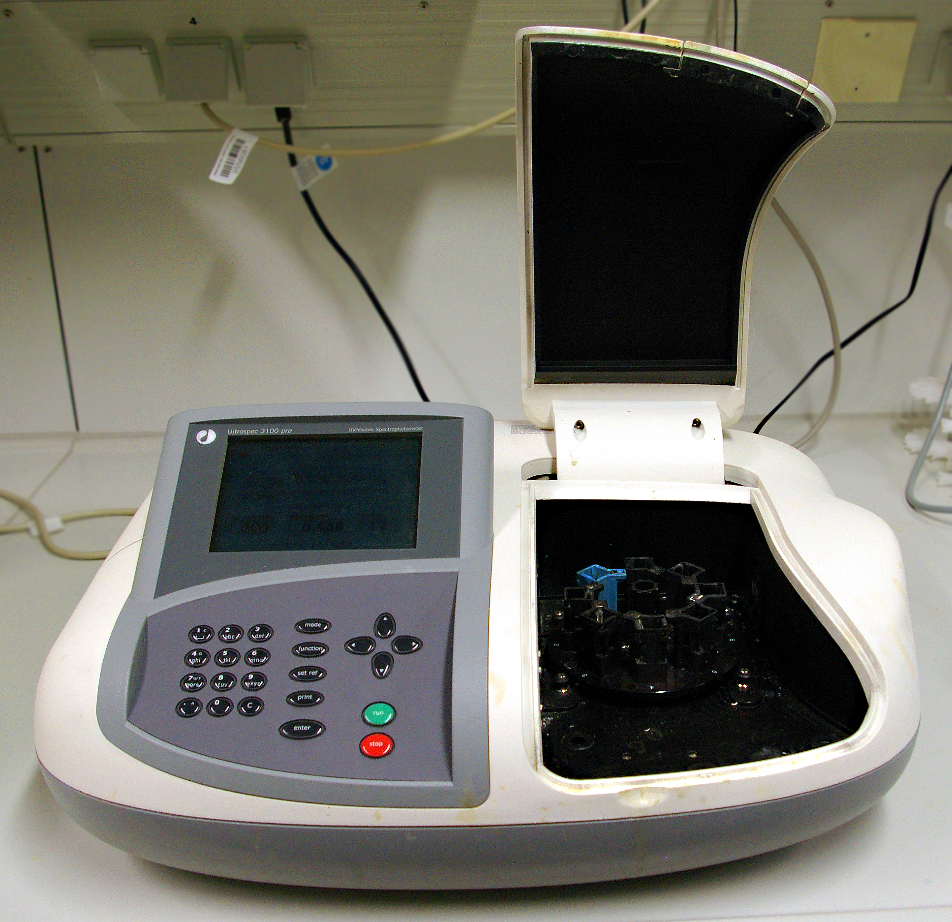 Small, simple 8 sample scpetrophotometer, open This photo was taken during Wikiproject LabSnap 2011 organised by Wikimedia Polska Association and hosted by Max Planck Institute for Molecular Cell Biology and Genetics in Dresden (MPI-CBG), which gave the access to its facilities. All photos taken during this wikiproject are to be found in the category LabPstryk 2011.